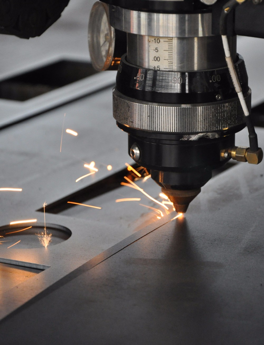 laser cutting machine